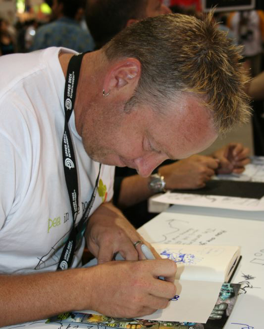 Paul Jenkins, British comic book writer, who has primarily worked for Marvel Comics.